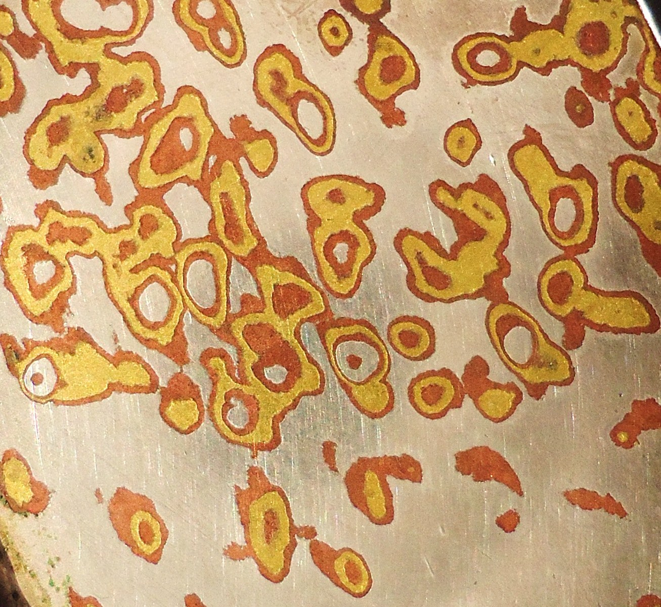 950-silver, copper and brass mokume-gane. Made by Mauro Cateb, Brazilian jeweler and silversmith.